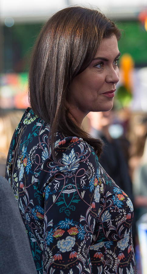 Amanda Lamb at the Pan Premiere